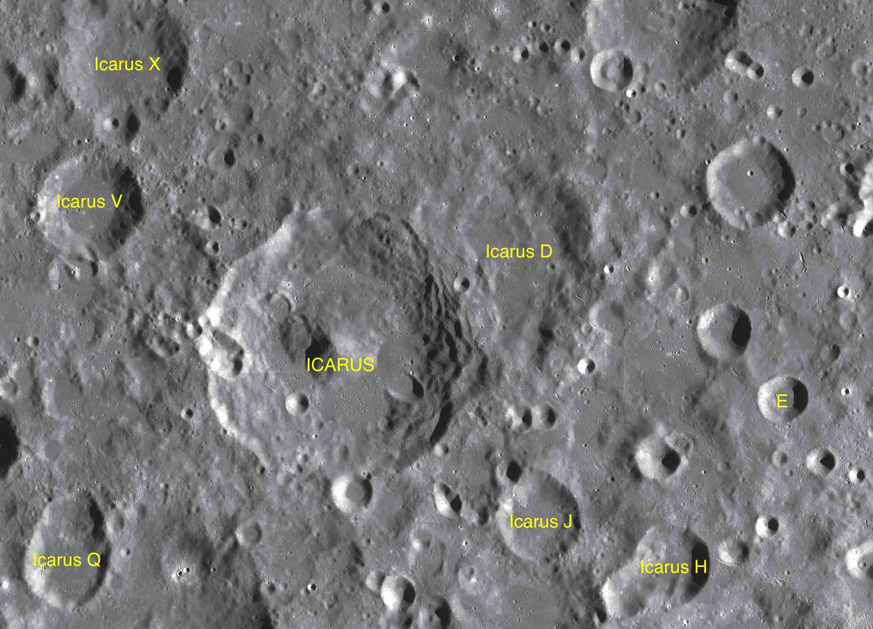 Parts of the charts LAC-86, LAC-87 used for the presentation